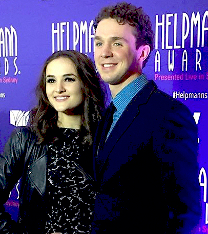 Hilary Cole & Rowan Witt at the 2016 Helpmann Awards